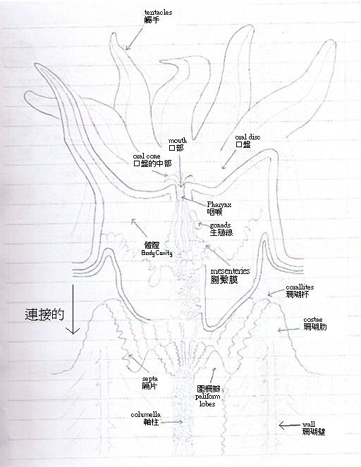 Hard Corals